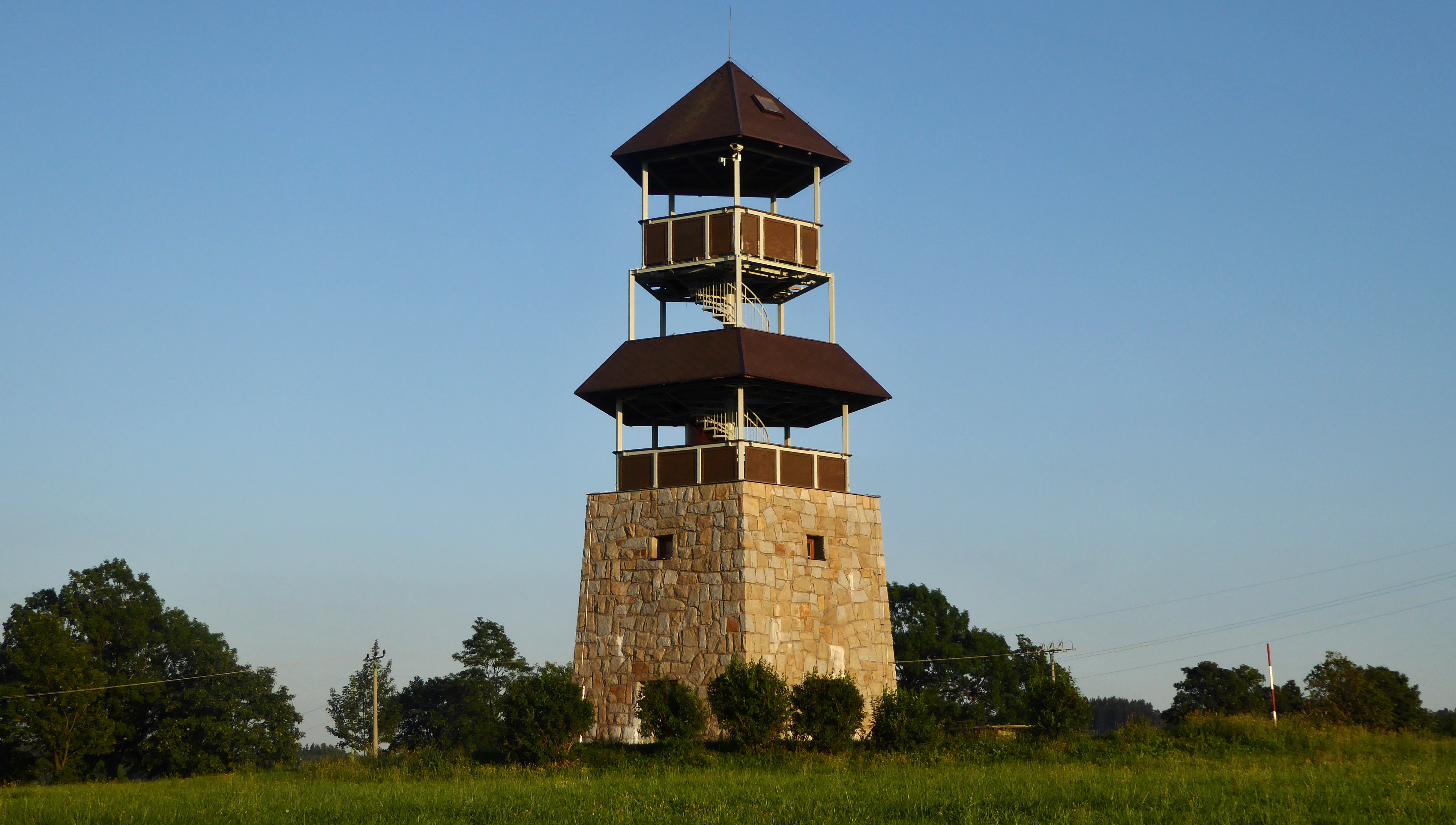 "Vojtěchovská" lookout tower in the landscape area ( geomorphological whole) of the Iron Mountains, view from north-northwest, to the right of the tower marking (white-red stick) of the elevation point "Kladenský" hill (589,93 meters above sea level), cadastral territory of village "Vojtechov", local name "Na hrbovatkách". Photo location: Czechia, Pardubice Region, villages Vojtěchov.